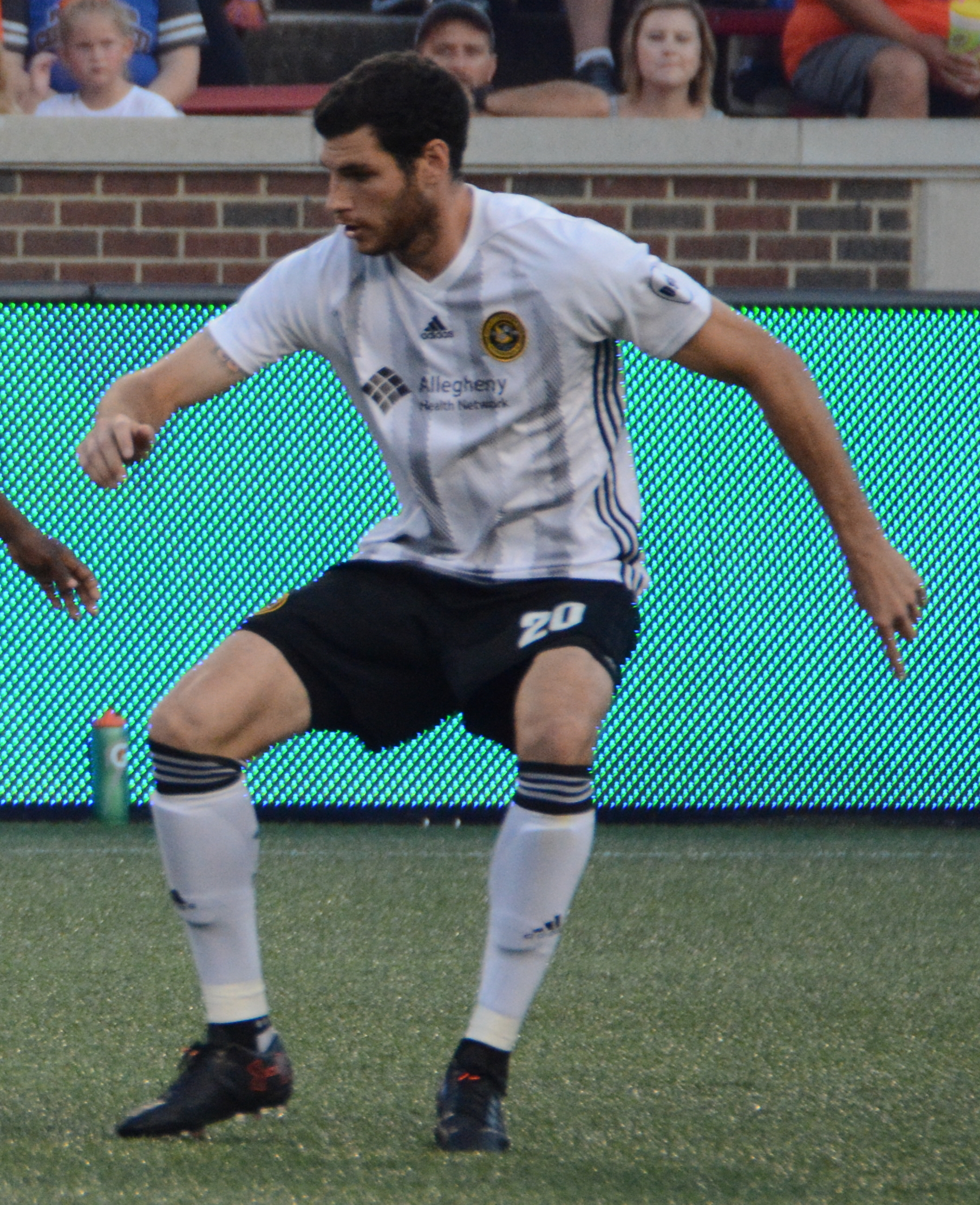 Taken during a USL regular season match between FC Cincinnati and Pittsburgh Riverhounds at Nippert Stadium in Cincinnati, USA on September 1, 2018.